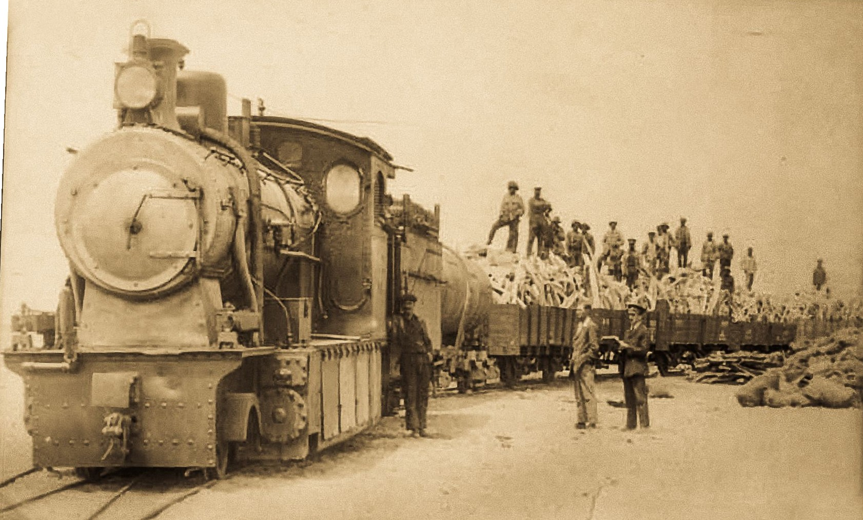 South African ex DSWA O&K 8-coupled tender (2-8-0), ex German South West Africa, coupling to a trainload of whale bones at Walvis Bay